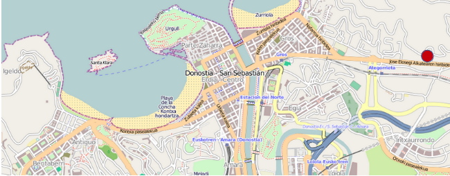 Location map of the Park of Nurseries of Ulia in Donostia city´s center. Gipuzkoa, Basque Country.(